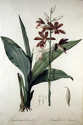 Limodore de Tankervill (Brown of Lady Tankerville) Works Of Pierre-Joseph Redouté - see Charles Bennet, 4th Earl of Tankerville